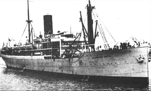 SS Gloucester Castle